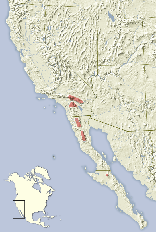 Distribution map of the California chipmunk